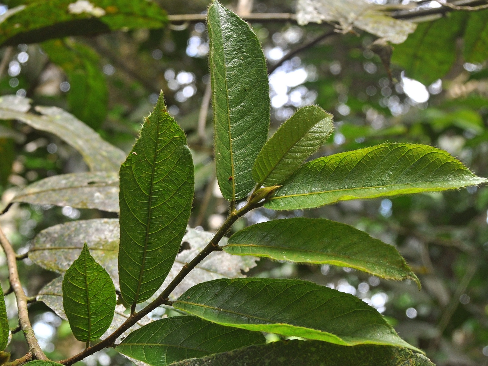 Leaves of Upas (Antiaris toxicaria). From West Kalimantan, Indonesia.